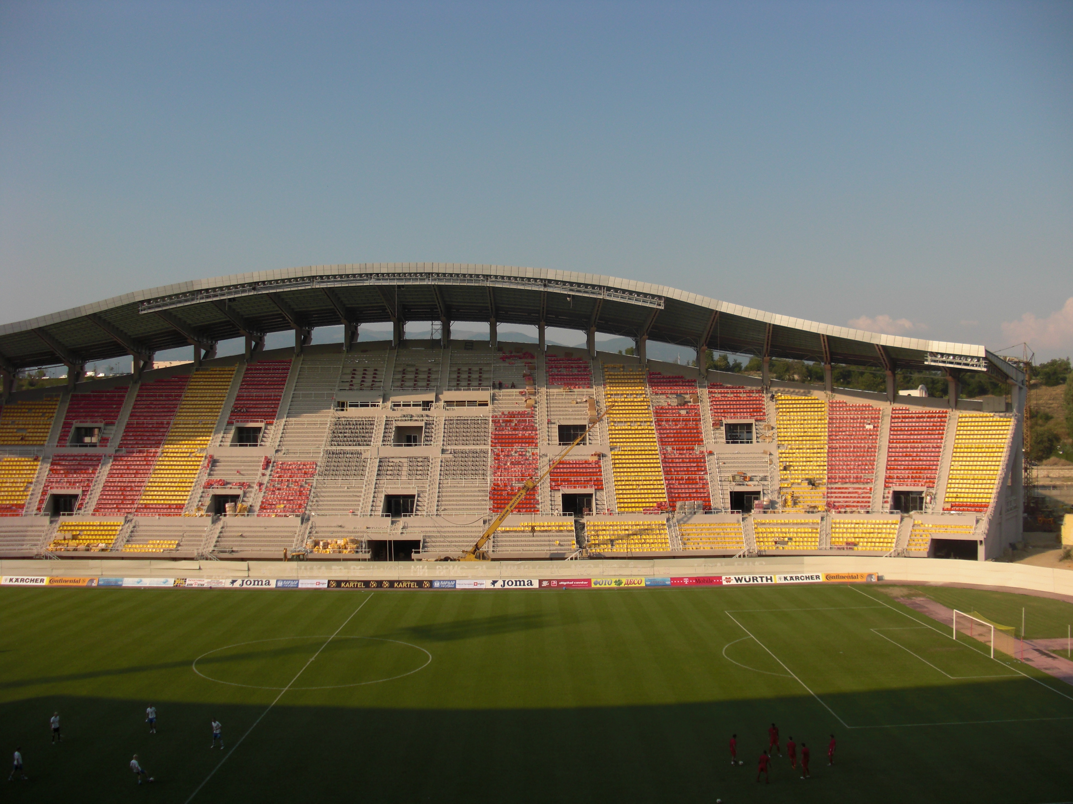 phillip II arena under construction, skopje, macedonia